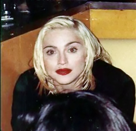 Singer Madonna AIDS Project Los Angeles (APLA) benefit, Los Angeles.